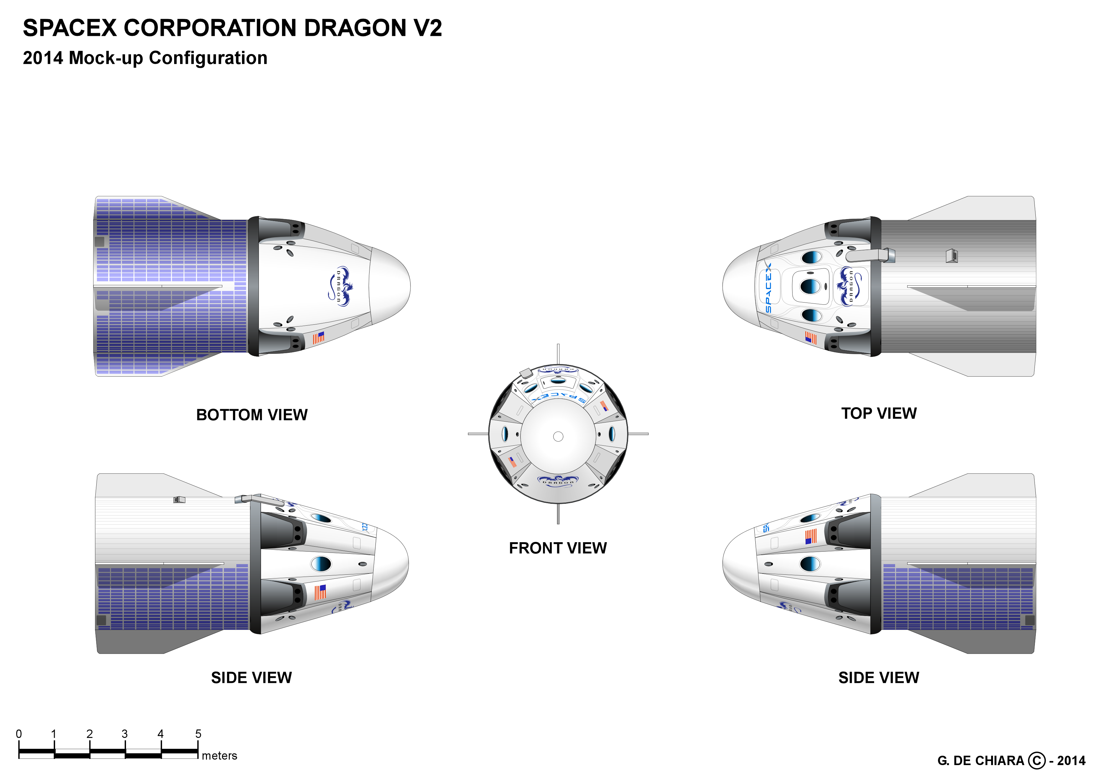 Manned version of Dragon CRS with powered vertical landing capability